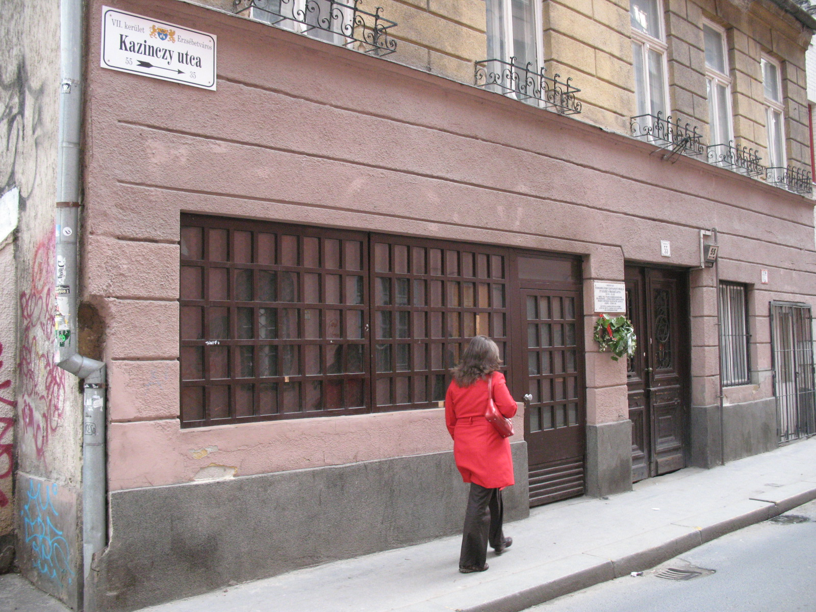 Wichmann Kocsma, Kazinczy utca 55, Budapest.